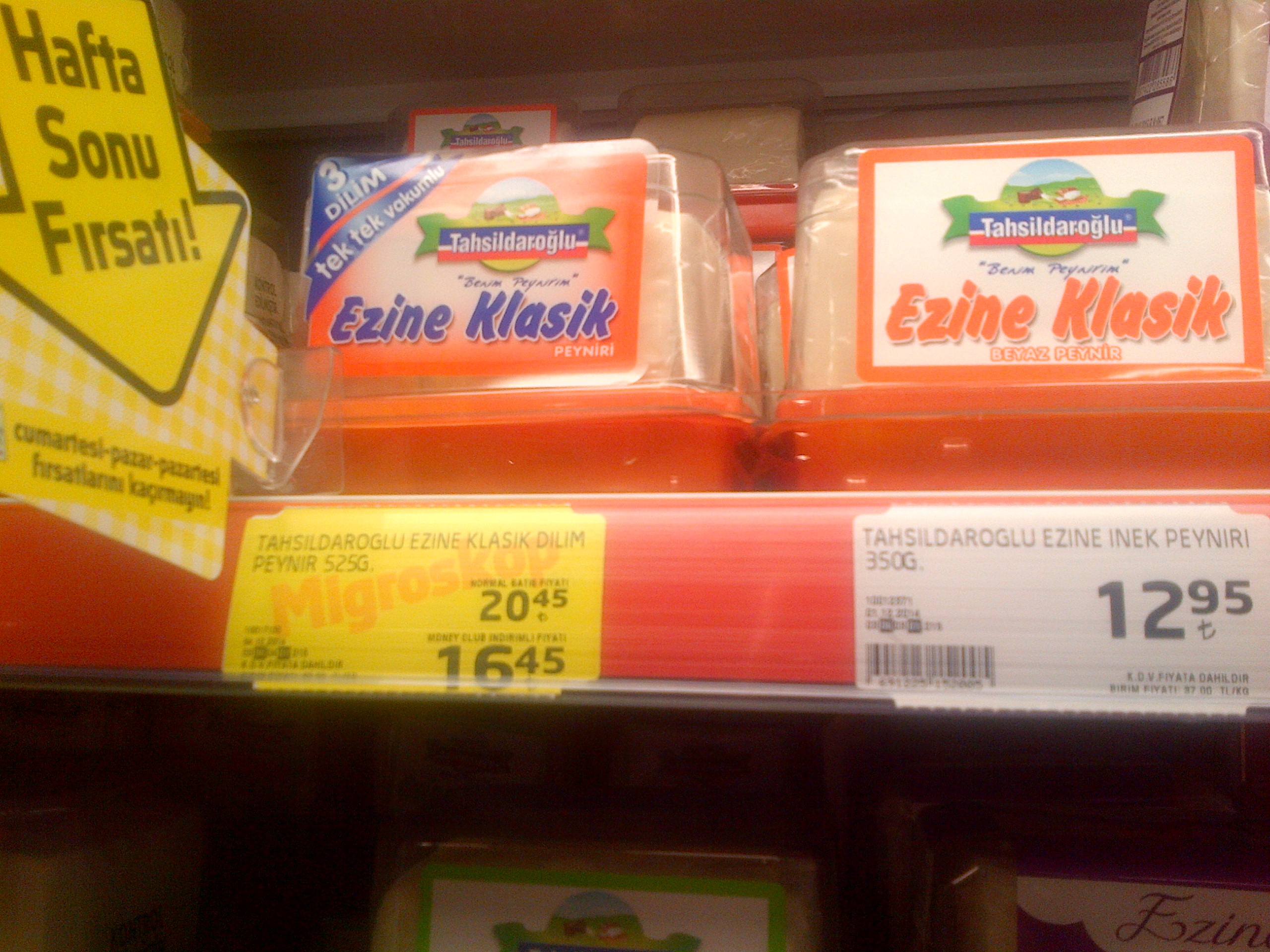 Turkish white cheese (beyaz peynir) in supermarket shelves in Ankara.